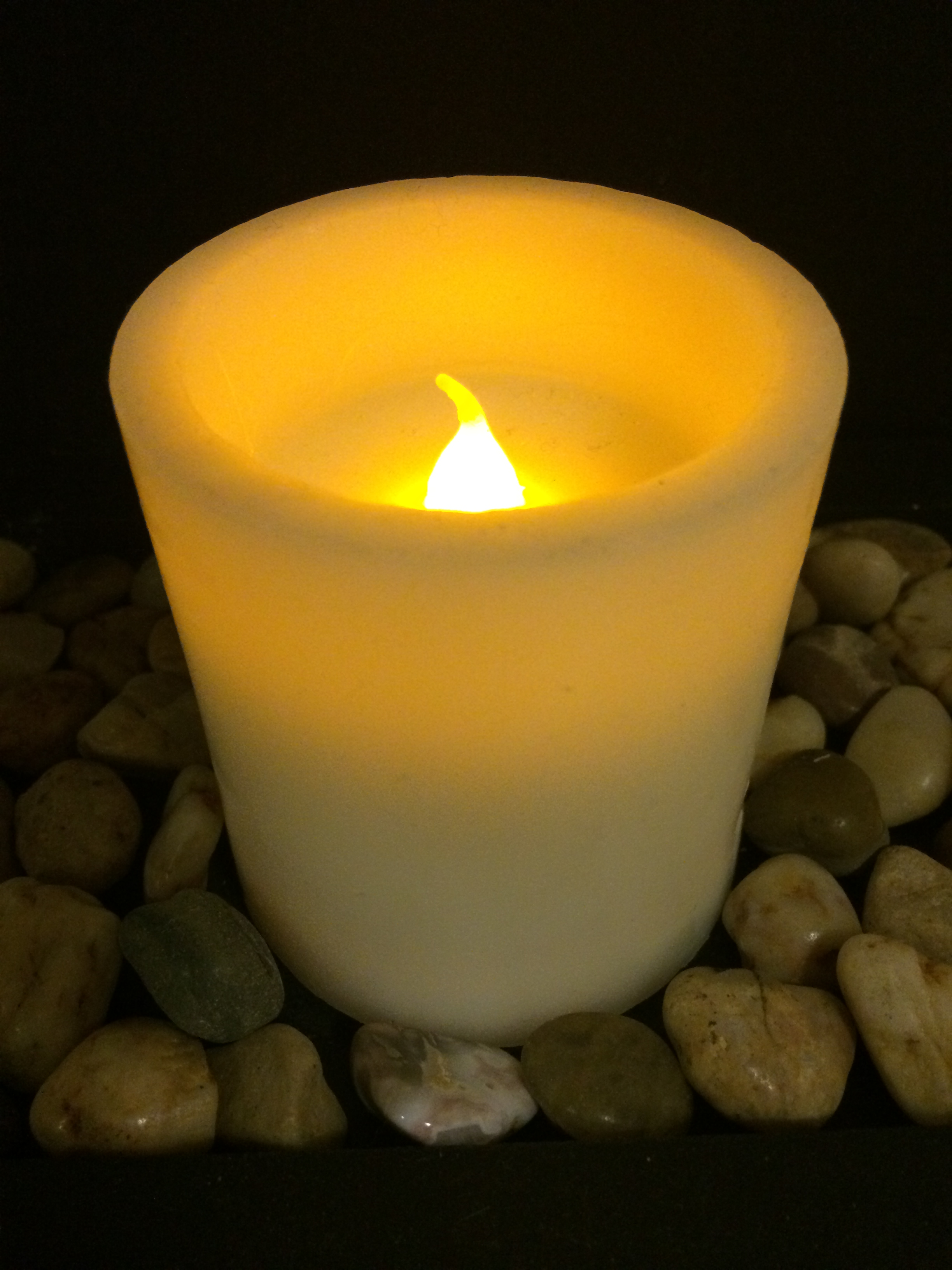 Photo of a lit flameless candle